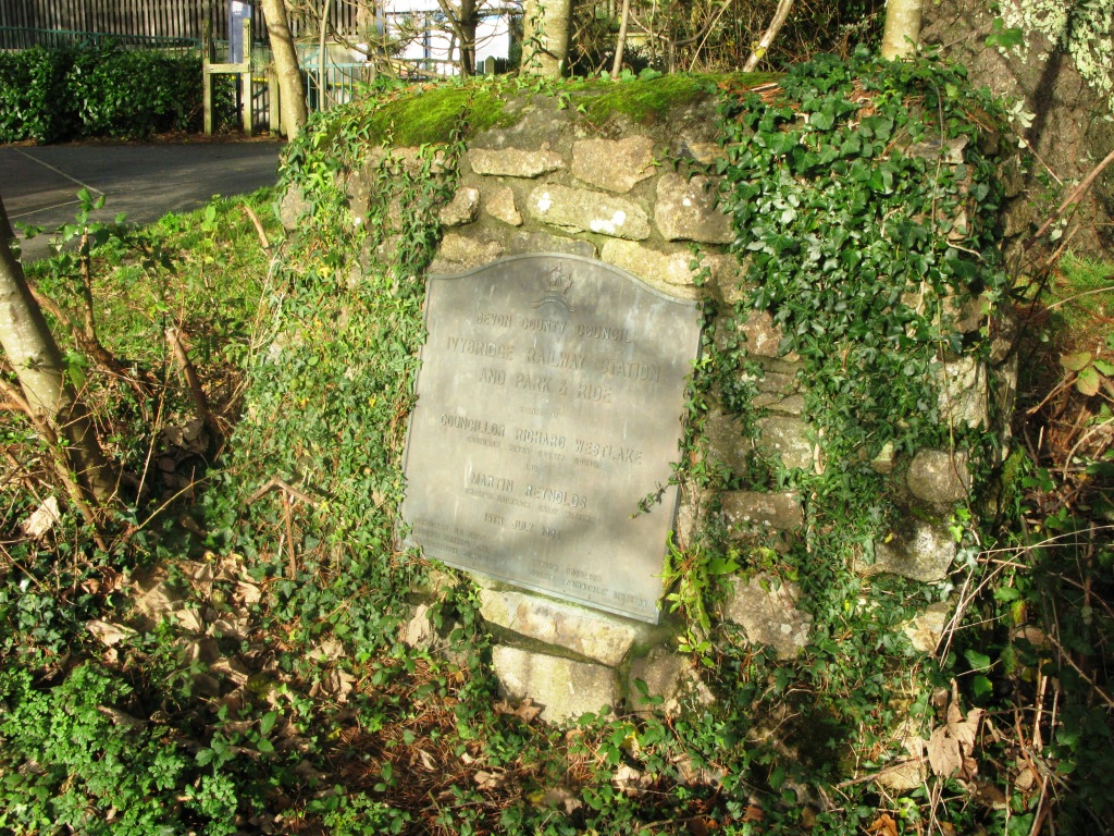 A plaque on a block of local granite commemorating the opening of Ivybridge station in Devon, in 1994.